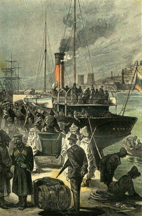 An illustration from Jules Verne's novel "Claudius Bombarnac" (alternate English titles: "The Special Correspondent", "The Adventures of a Special Correspondent", "The Adventures of a Special Correspondent in Central Asia" or "Claudius Bombarnac: Special Correspondent").